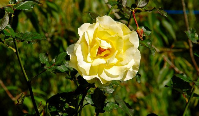 Autumn roses, Botanic Gardens, Belfast (3). See 984719.